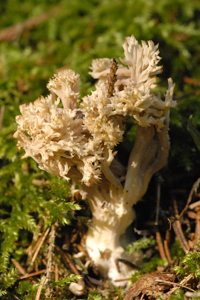 Clavulina coralloides from Commanster, Belgium. The determination of the species shown in this picture has been verified.